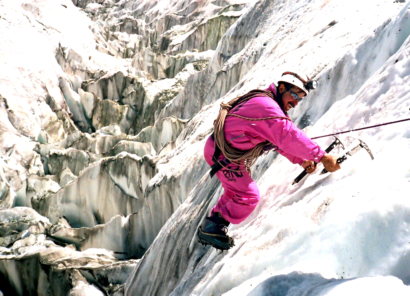 Hayatullah Khan Durrani Pakistan's Adventure Sports Legend in Expedition to Raka Poshi 2003.